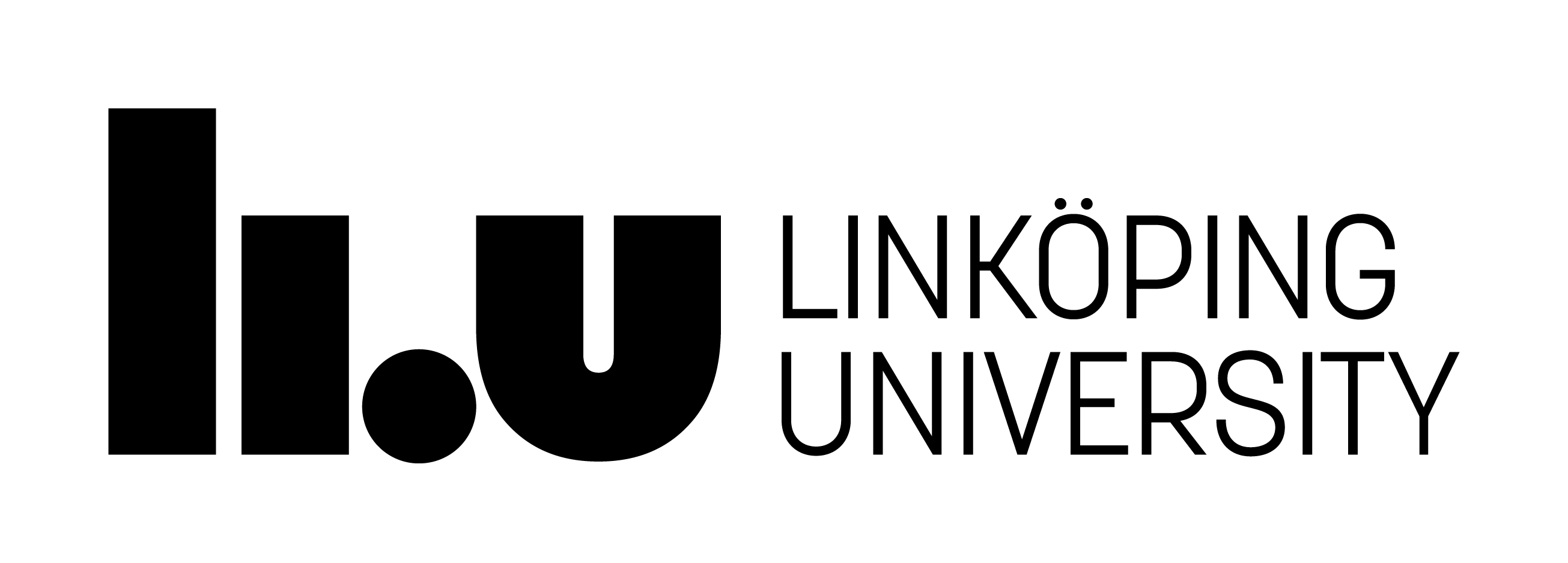 Logo of Linköping University (English)